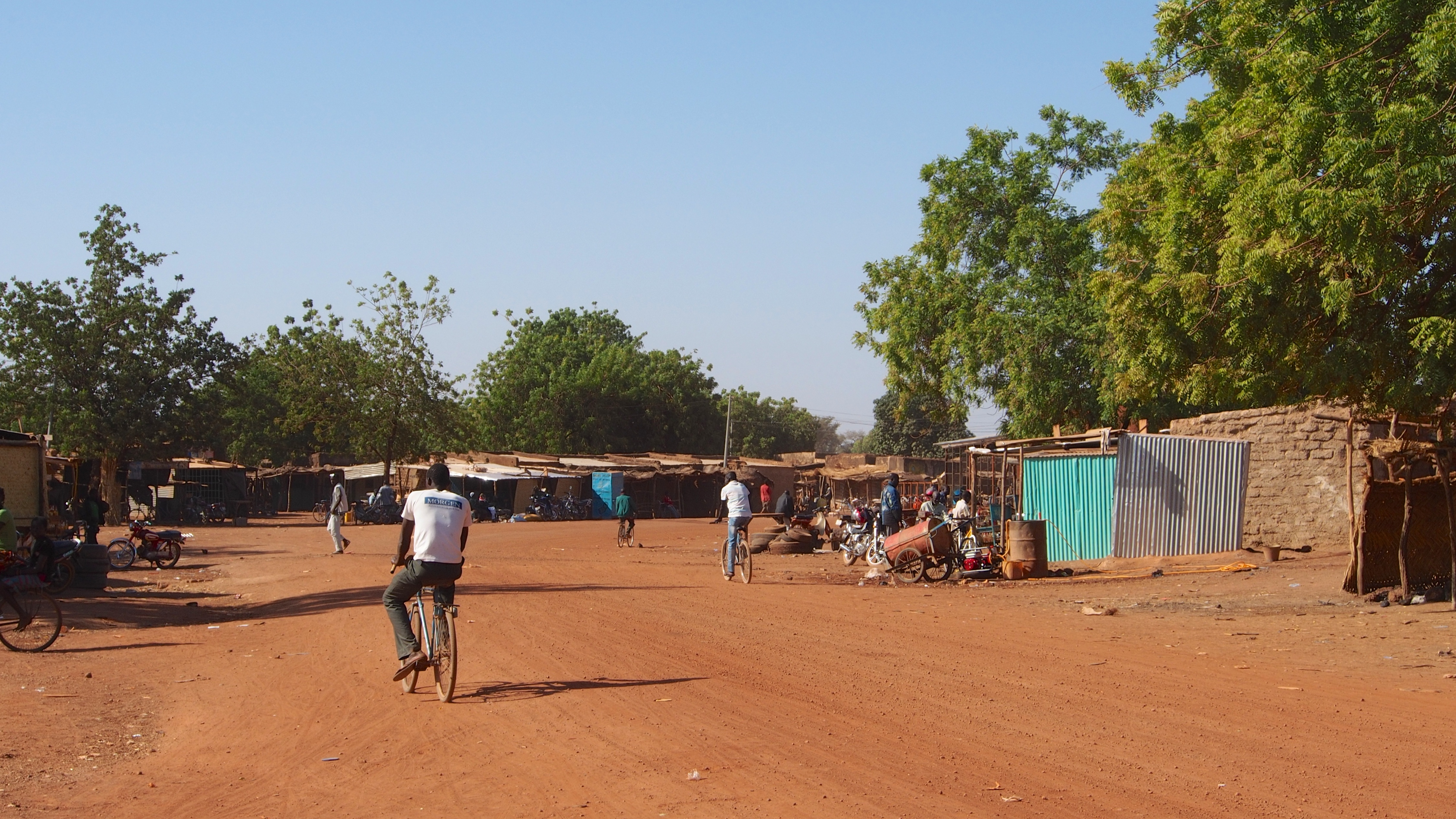 street view in the center of La Toden, Passoré, Burkina Faso. Please note the central market in the background.